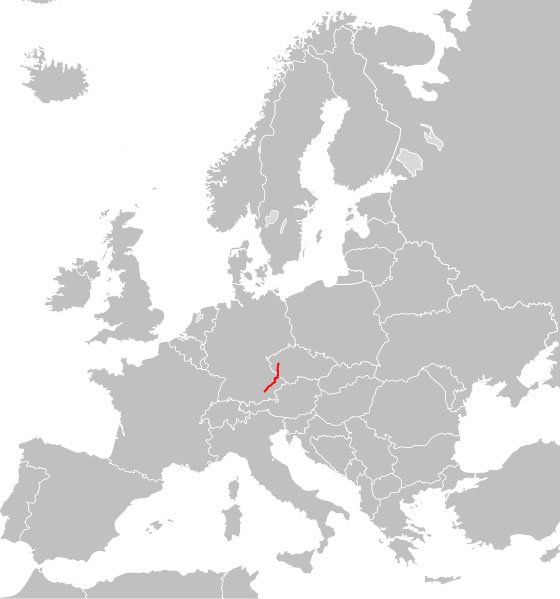 The European route 53